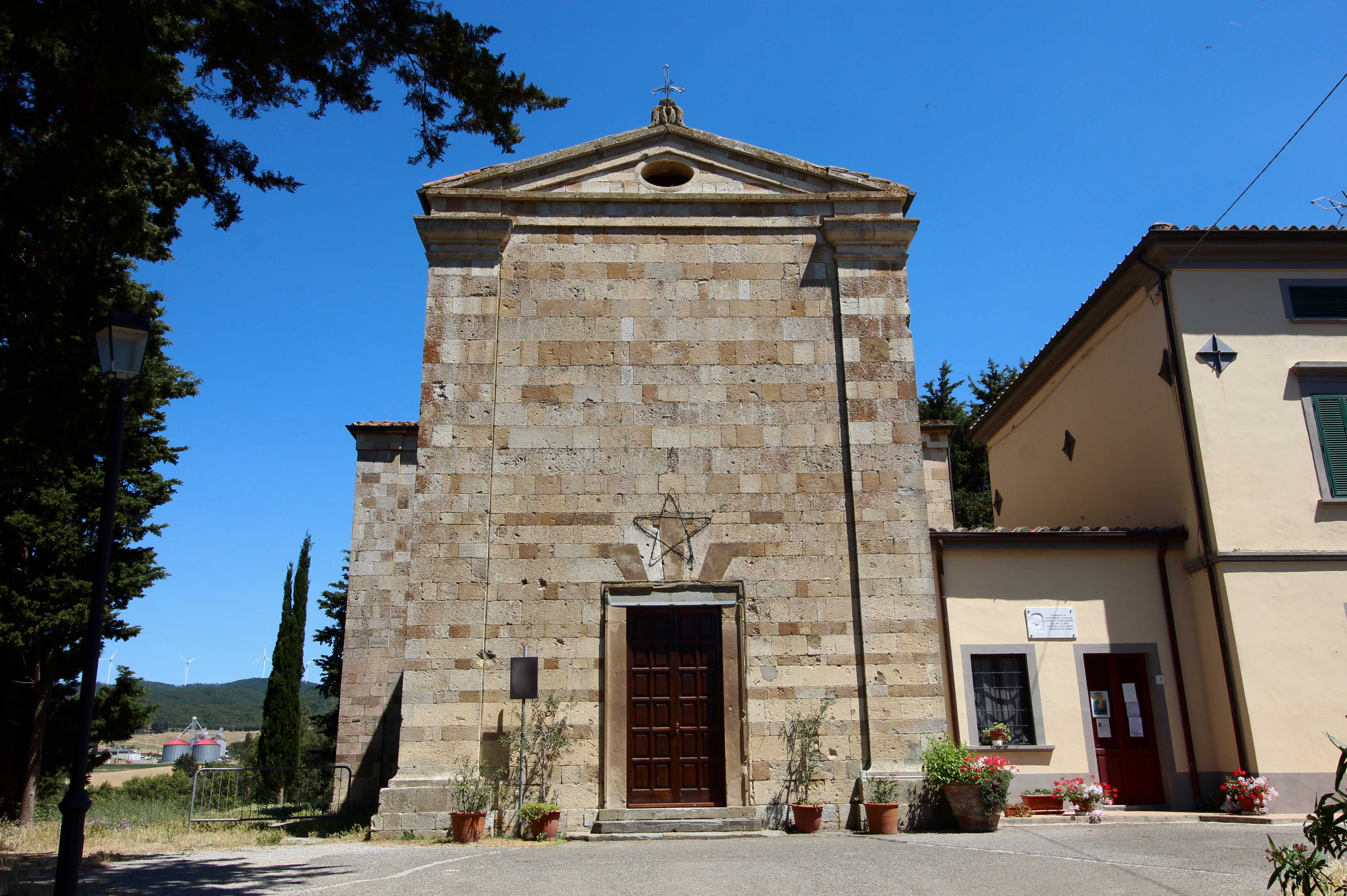 Church Santa Maria e Sant'Angelo, Pieve Santa Luce, hamlet of Santa Luce, Province of Pisa, Tuscany, Italy